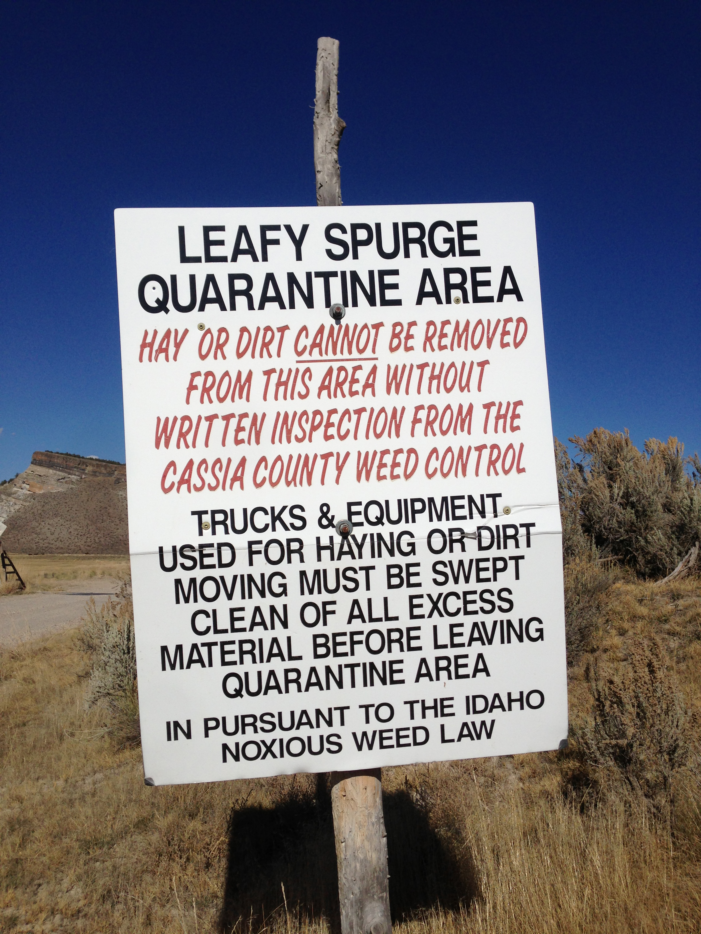 Leafy Spurge Quarantine Area sign along Goose Creek Road where it crosses from Box Elder County, Utah into Cassia County, Idaho